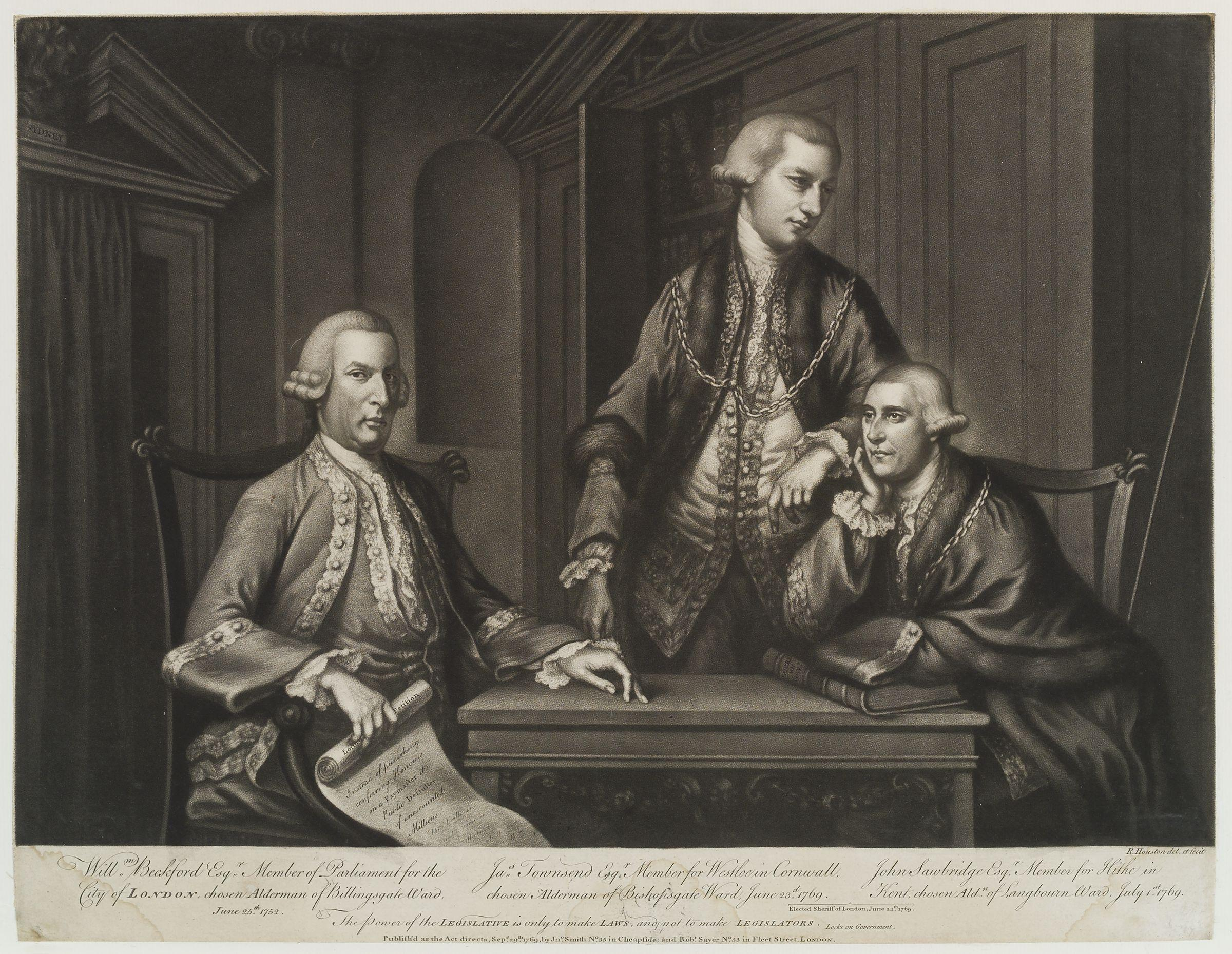 William Beckford; John Sawbridge; James Townsend, by Richard Houston (died 1775), published 1769, given to the National Portrait Gallery, London in 1916. All images in this batch have been confirmed as author died before 1939 according to the official death date listed by the NPG.